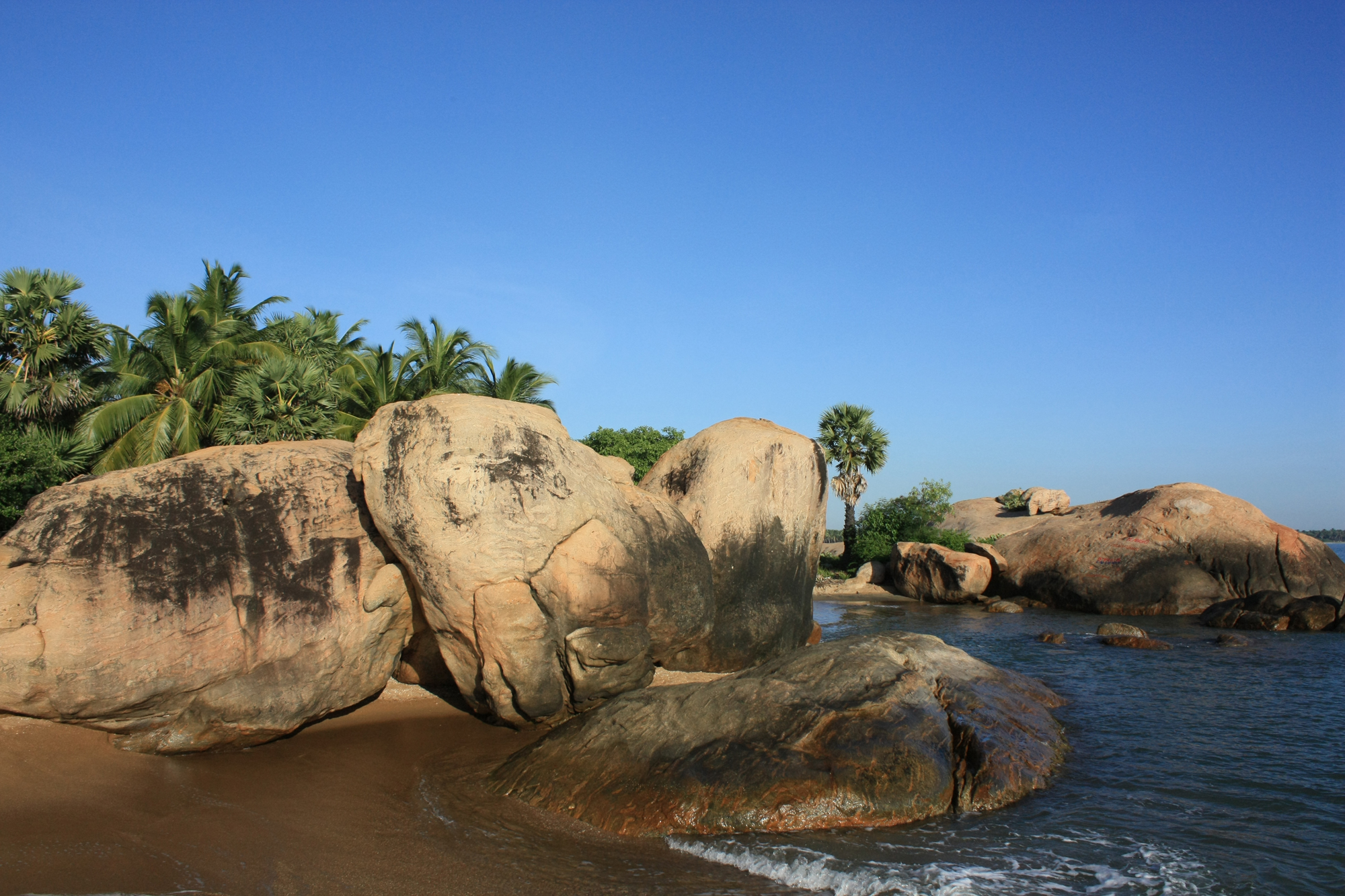 Pasikudah beach, Batticaloa, Sri Lanka